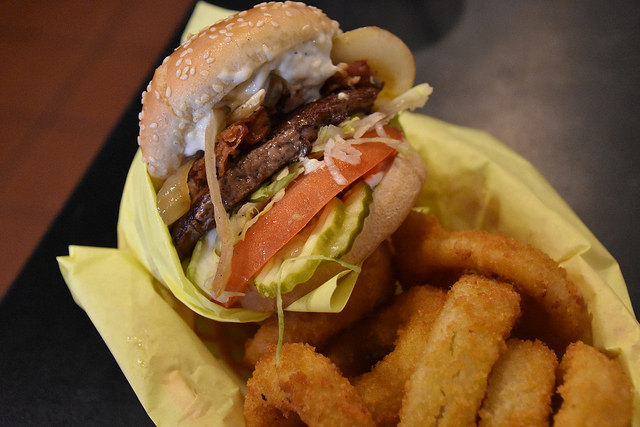 A photograph of the Blue Jay burger and onion rings at the restaurant Hodad's.